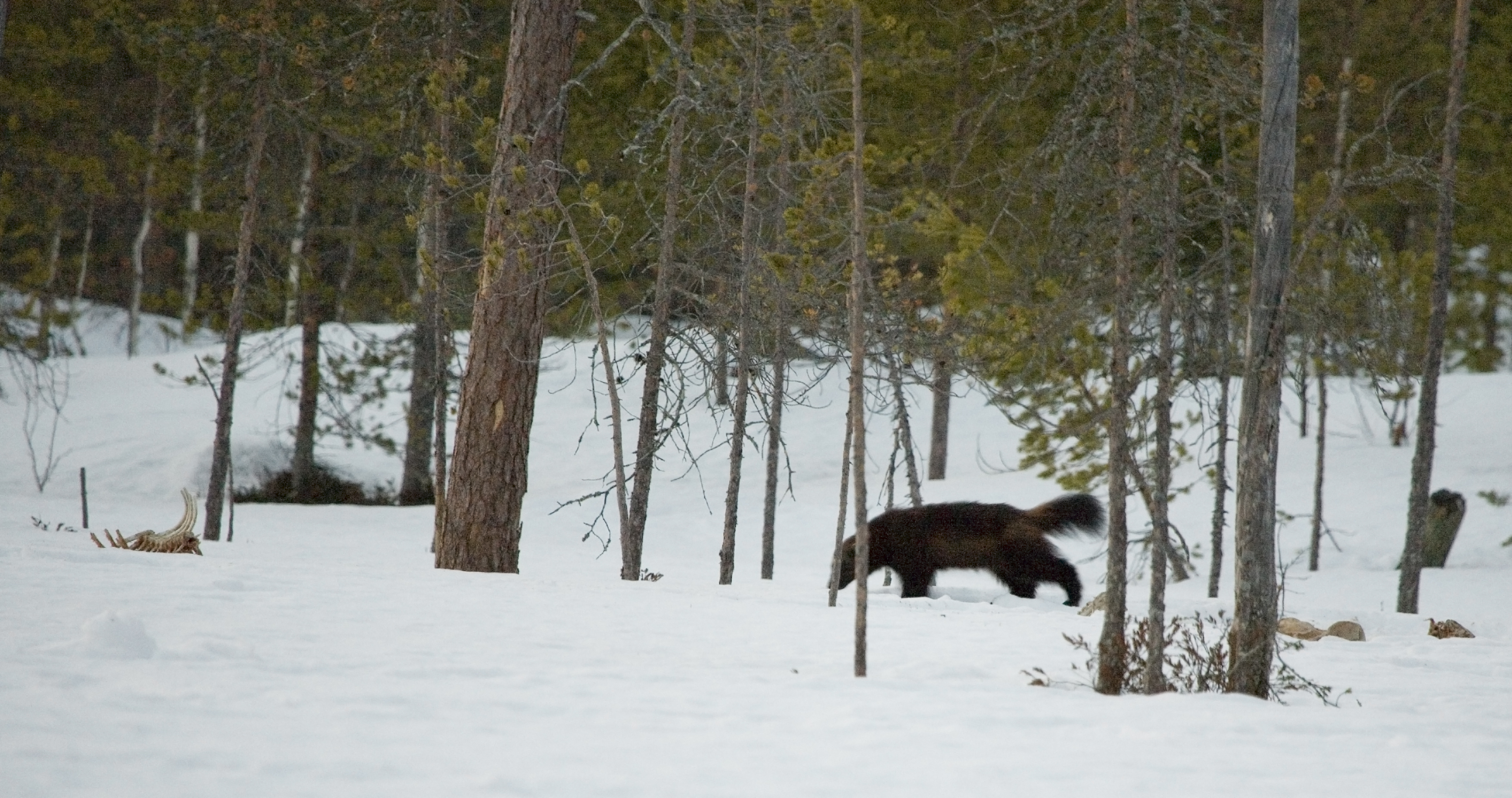 Wolverine (Gulo gulo).